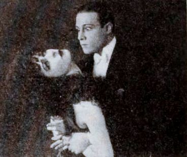 Still from the American film Camille (1921) with Alla Nazimova and Rudolph Valentino, on page 40 of the September 17, 1921 Exhibitors Herald.